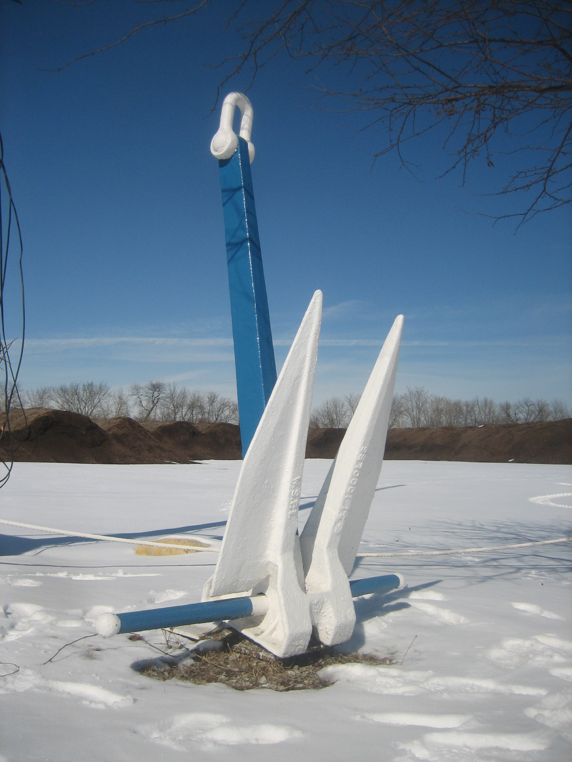 This guy kept staring at us when we were looking for a cache which ended up being under this anchor.